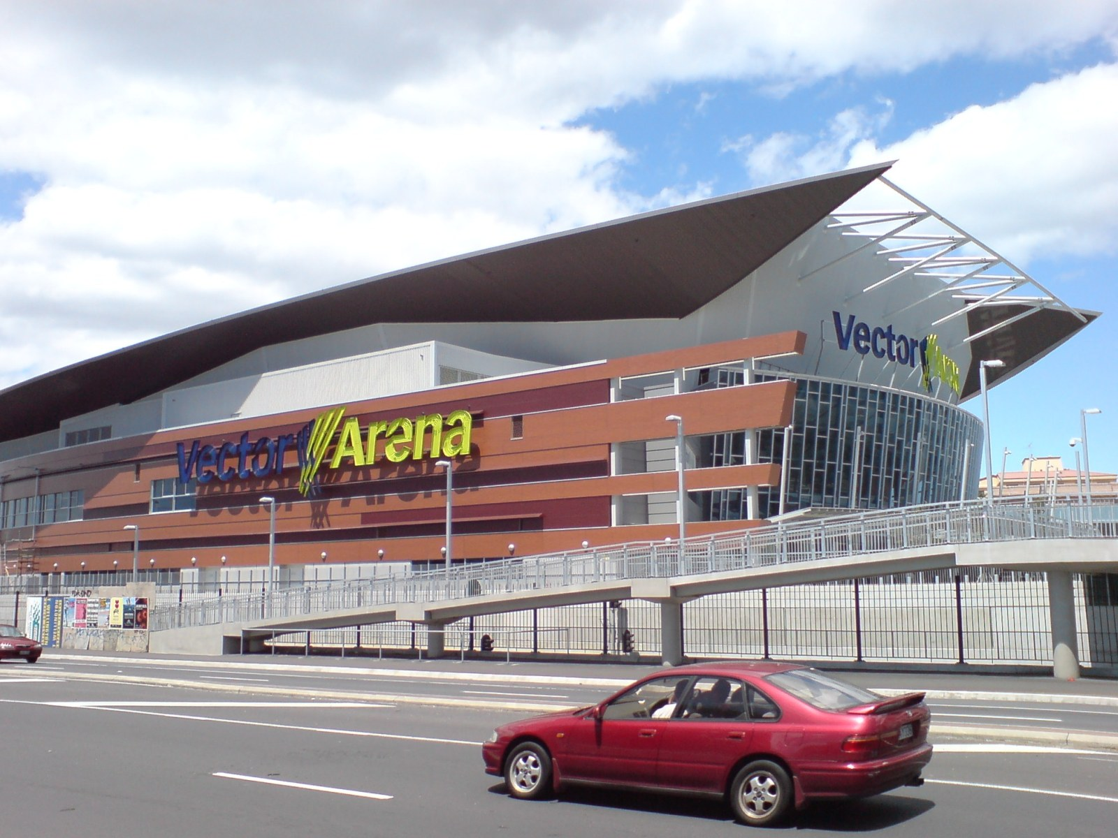 Vector Arena in Auckland, New Zealand. Looking south from Quay Street.